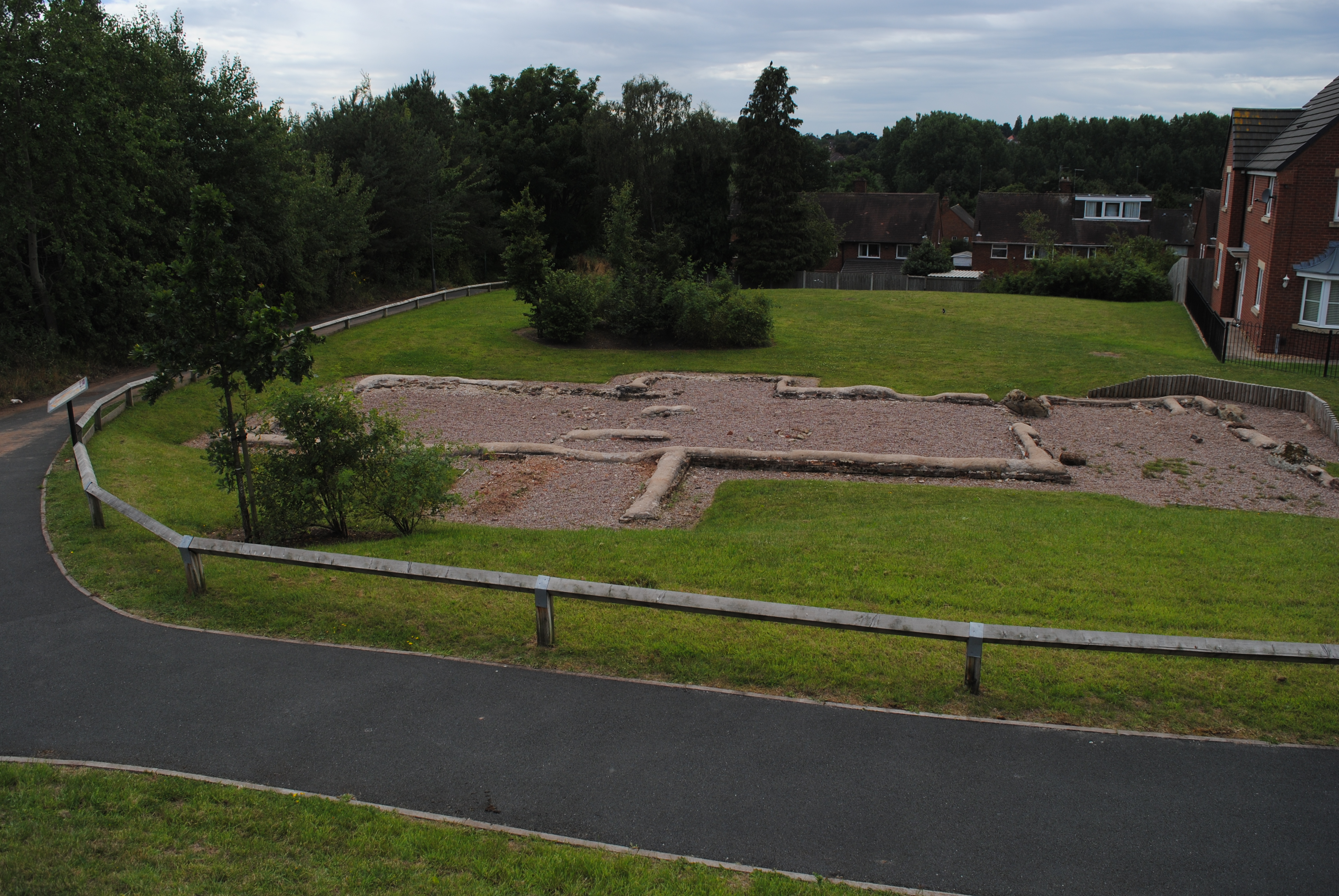 Booth's Farm farmhouse, Great Barr, Birmingham, England; former home of the forger William Booth.